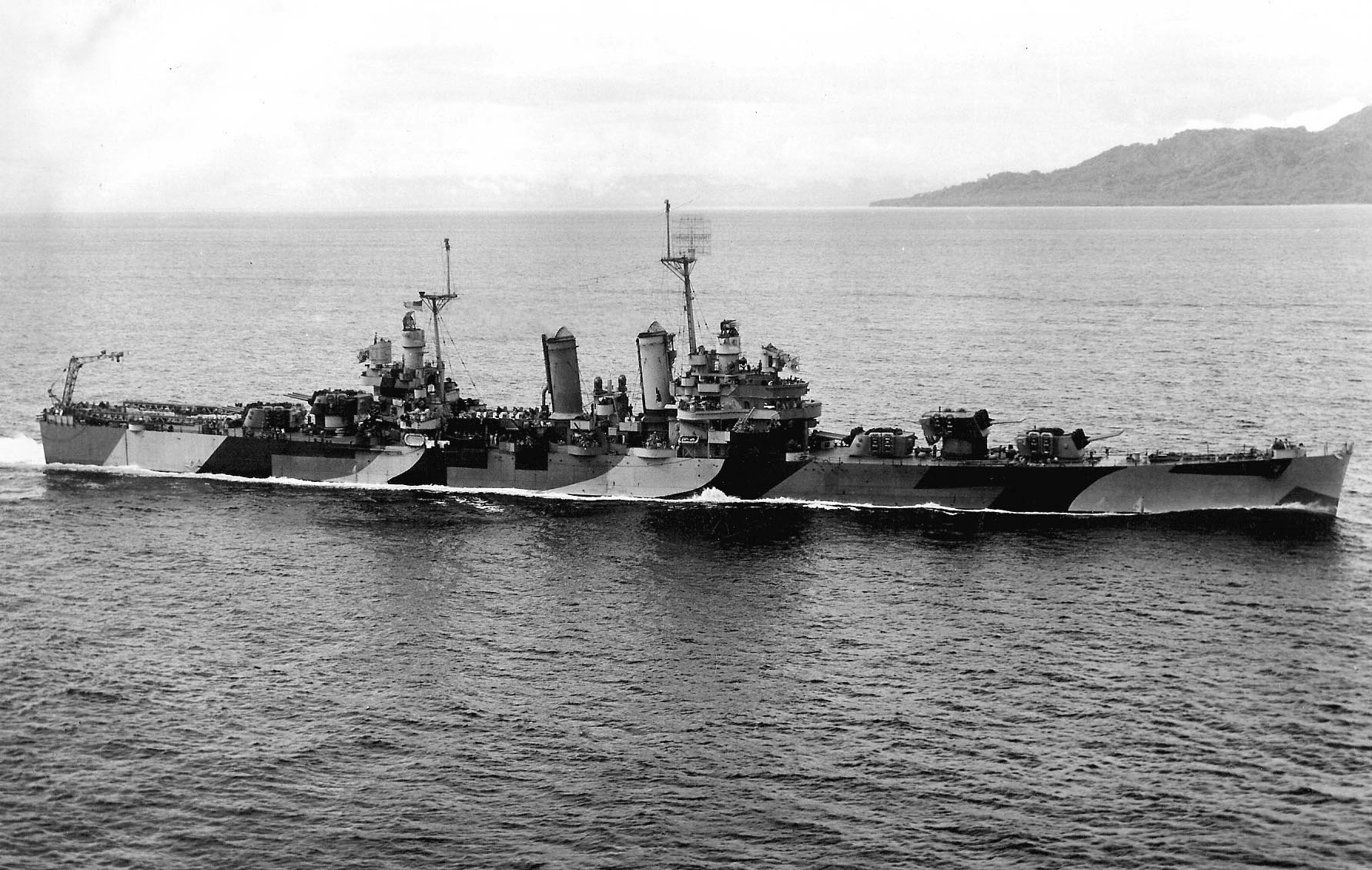 The U.S. Navy light cruiser USS Honolulu (CL-48) underway in the Pacific. Her camouflage is Measure 32, Design 2c.